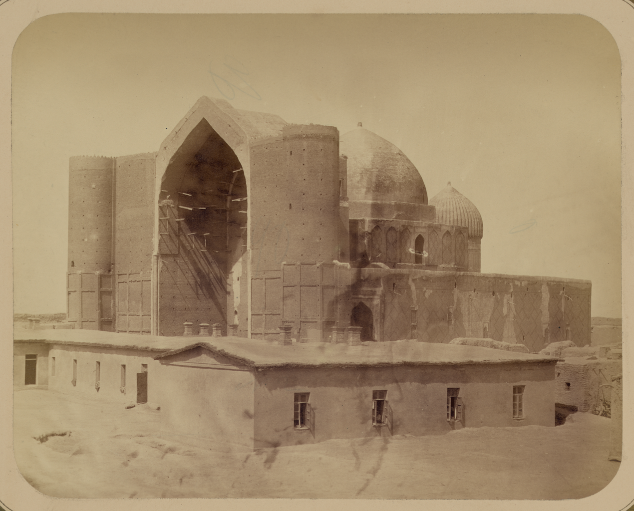 This photograph of the mausoleum of Khoja Ahmed Yasawi in the city of Turkestan (formerly Yasi, ancient capital of the Kazakhs) is contained in Turkestan Album, one of the richest sources of visual information on the cultural monuments of Central Asia as they appeared in the 19th century. The multi-volume edition was produced in 1871-72 under the patronage of Konstantin P. von Kaufman, a Russian army general and the first governor-general of Turkestan, as the Russian empire's Central Asian holdings were called. Kaufman held that position from 1867 to 1886, during which time he played a major role in establishing Russia's dominant position in Central Asia. The primary photographic compilers for the Turkestan Album were Aleksandr L. Kun (1840-88), an orientalist attached to the army, and Nikolai V. Bogaevskii (1843-1912), a military engineer. Khoja Ahmed (1103-66) was a renowned Sufi spiritual leader and poet who taught in the city of Yasi. In 1389 the great Tamerlane commissioned Persian masters to build a vast mausoleum over the saint's burial site. Although uncompleted at the time of the ruler's death in 1405, work resumed in the late 16th century, and the domed structure has survived as one of the best examples of Timurid architecture. In 2002 the mausoleum was designated a UNESCO World Heritage Site. Islamic architecture; I͡Asavi, Akhmed, died 1166; Photographic surveys; Sepulchral monuments; Tombs